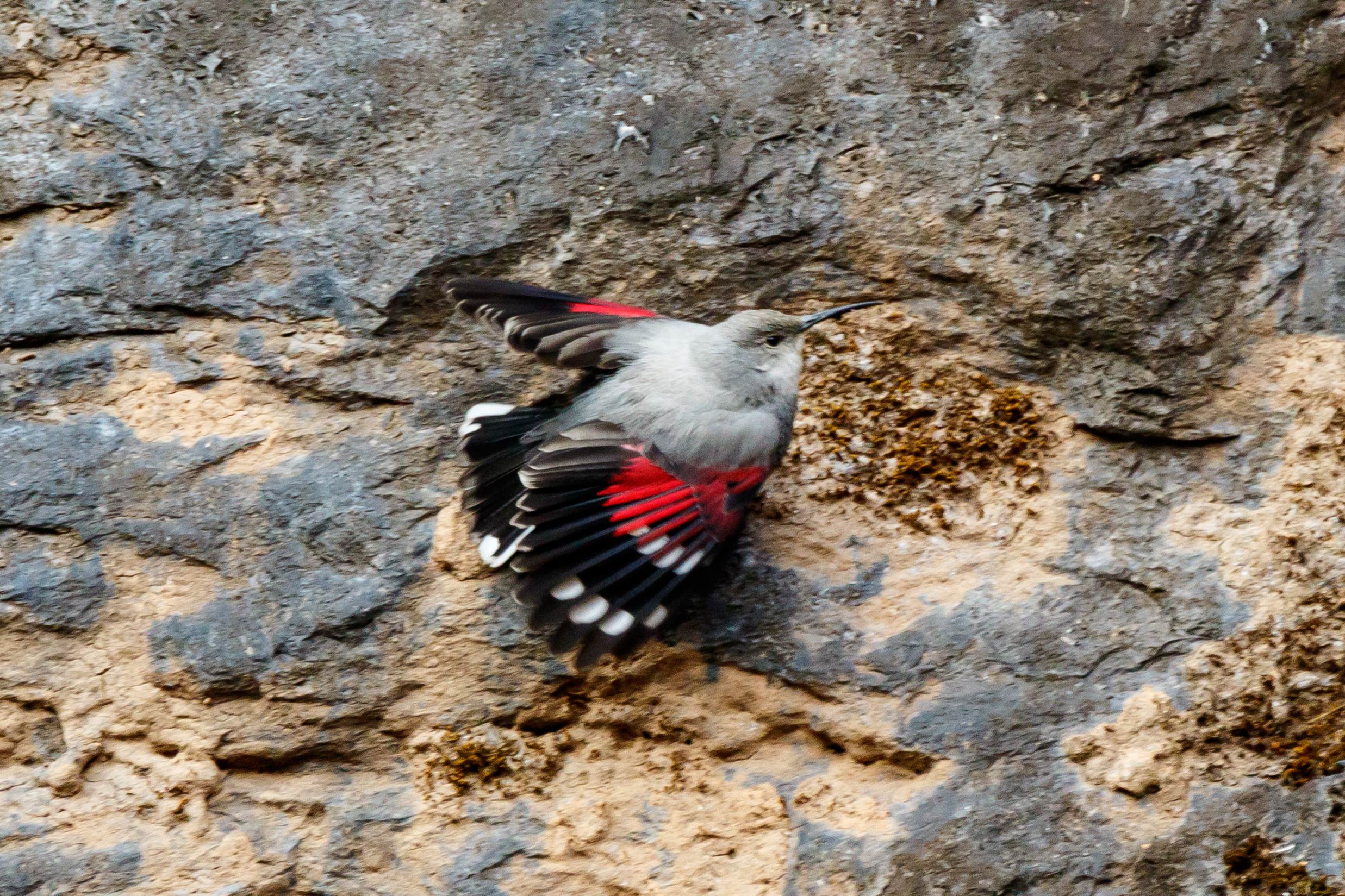 Wallcreeper Tichodroma muraria, Godawari, Nepal, 2019